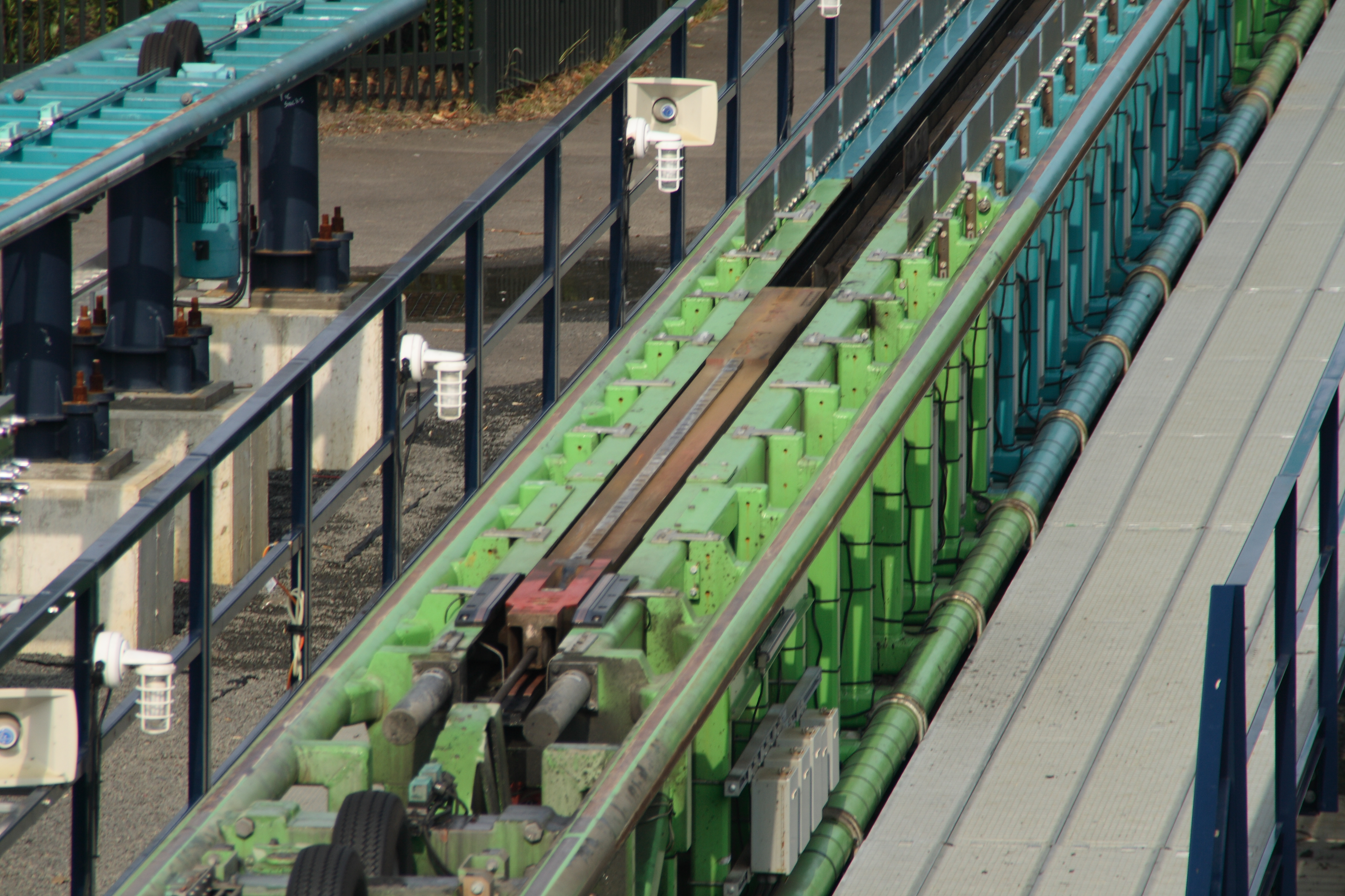 The catchcar from an Intamin AG Accelerator Coaster which launches the train.